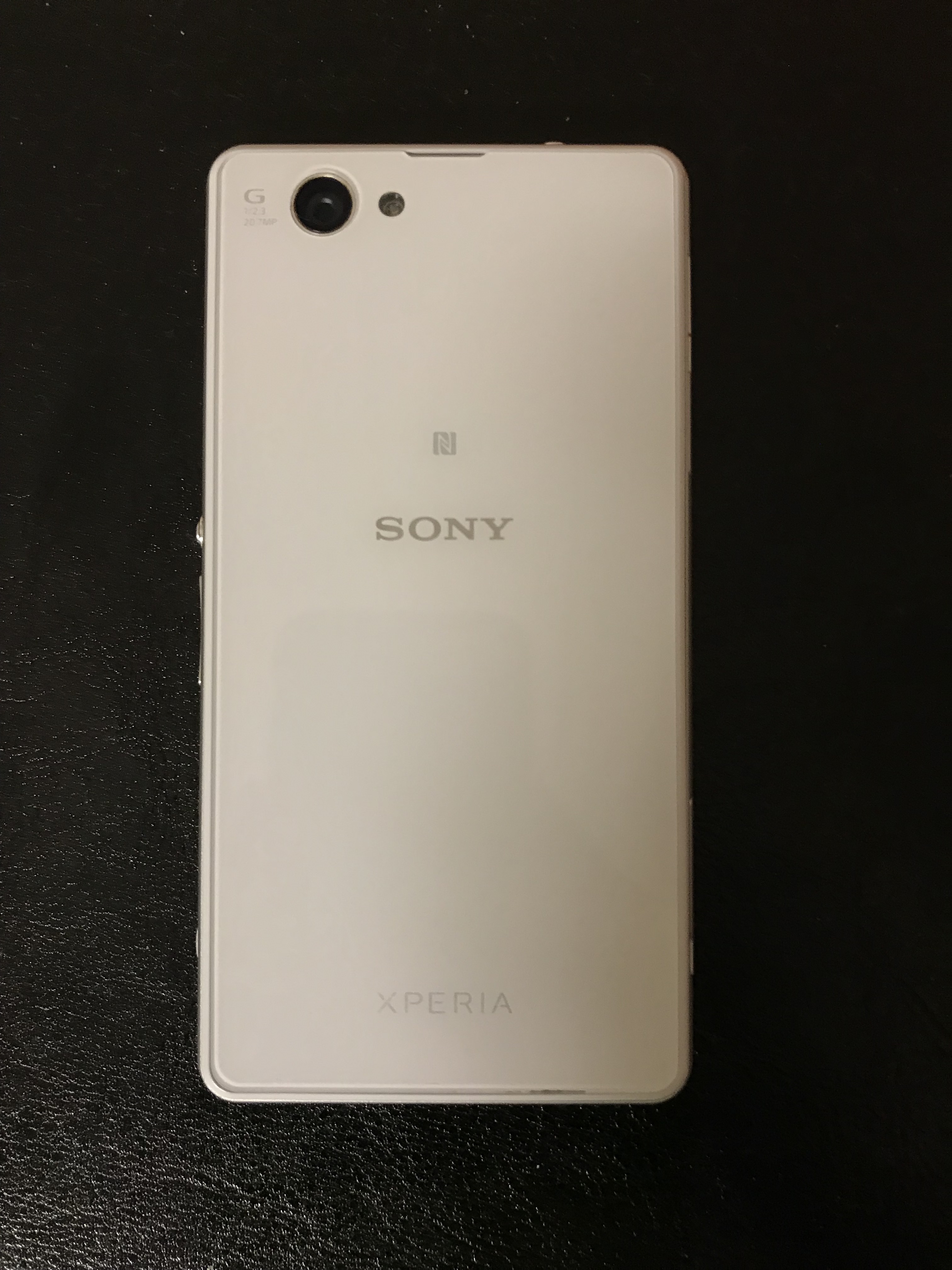 back of a phone